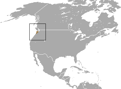 Olympic Shrew (Sorex rohweri) range IUCN: Sorex rohweri Rausch, Feagin & Rausch, 2007 (old web site) (Least Concern)